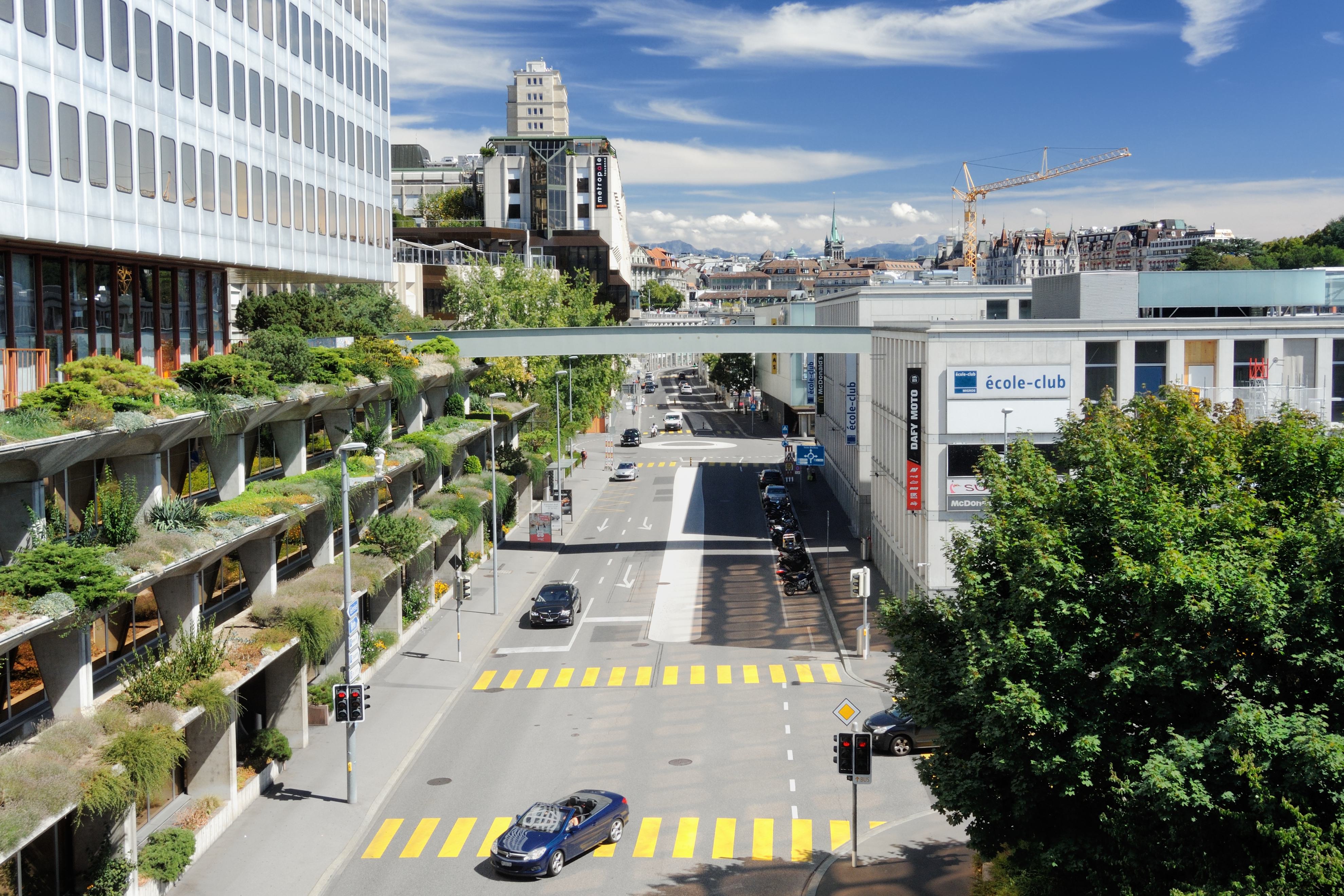 Summer view of Rue de Genève from Pont Chauderon (Lausanne). N.B.: This picture is part of a series showing all four seasons, see other versions.